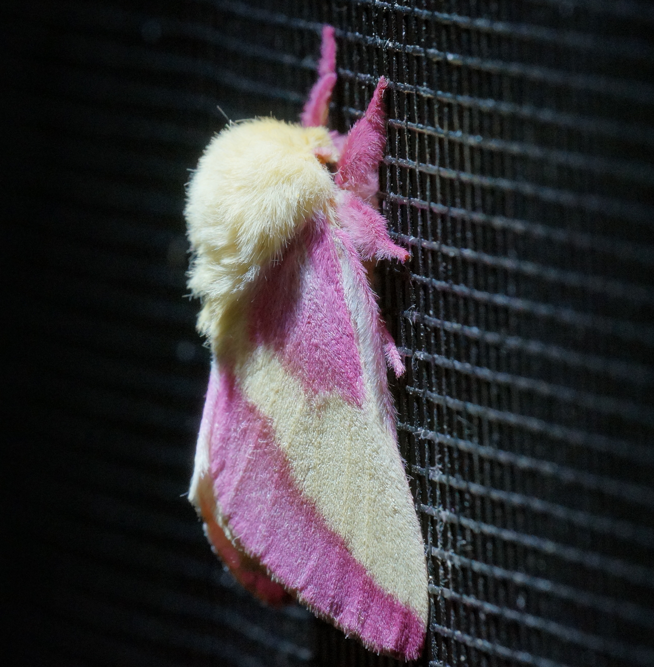 National Moth Week is imminent.